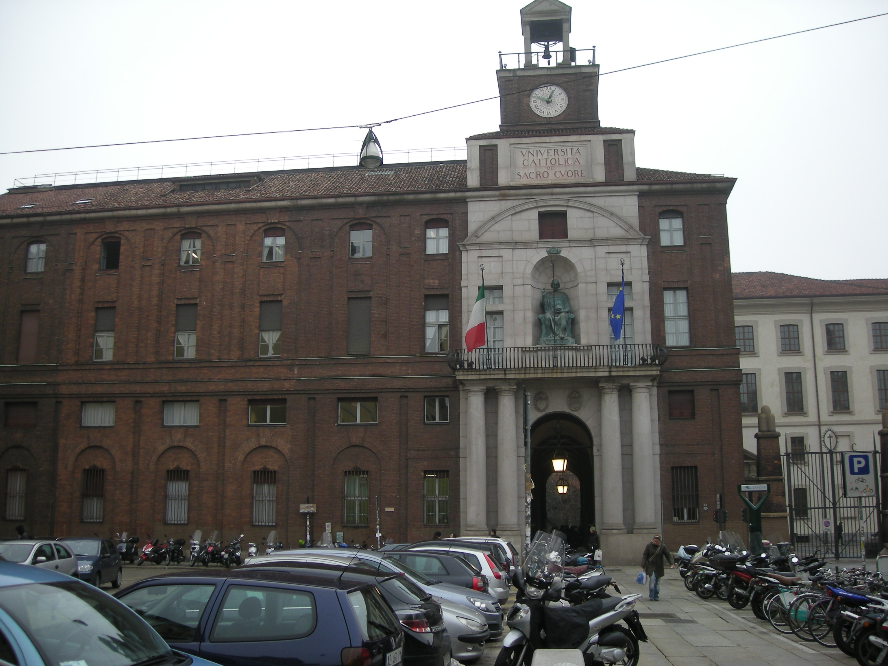 Main Entrance